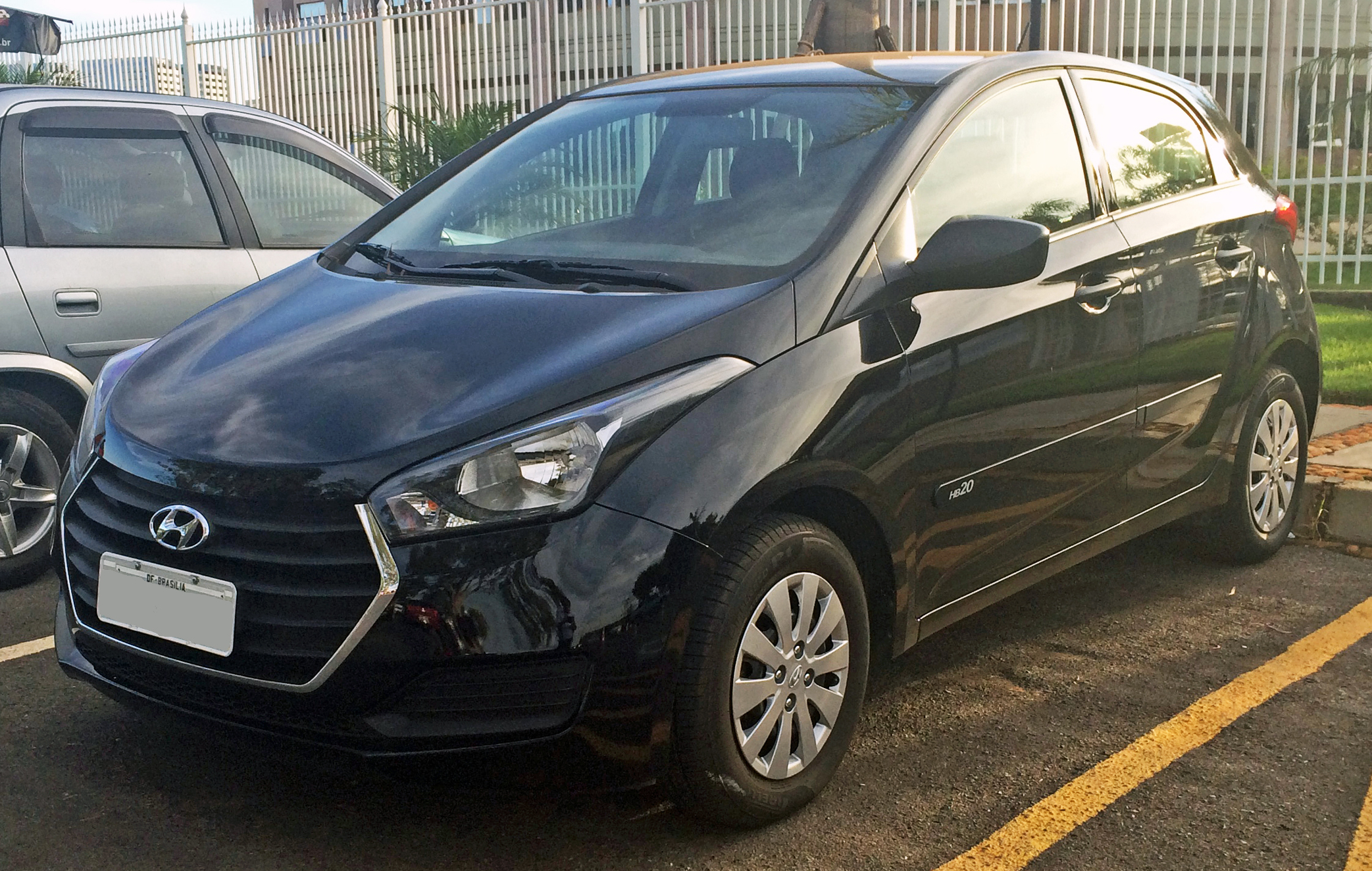 3/4 view of the Hyundai HB20, Brasilia, Brazil